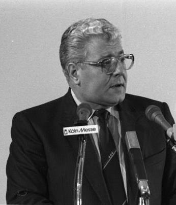 Title: Köln, CDU-Bundesparteitag, Burger Extra information: Rede Norbert Burger People in the image: Burger, Norbert: Oberbürgermeister von Köln, Bundesrepublik Deutschland Factual corrections and alternative descriptions are encouraged separately from the original description. Additionally errors can be reported at this page to inform the Bundesarchiv. Original historic description: 25.5.1983 31. Bundesparteitag der CDU in der Congress-Halle 8 der Kölner Messe.